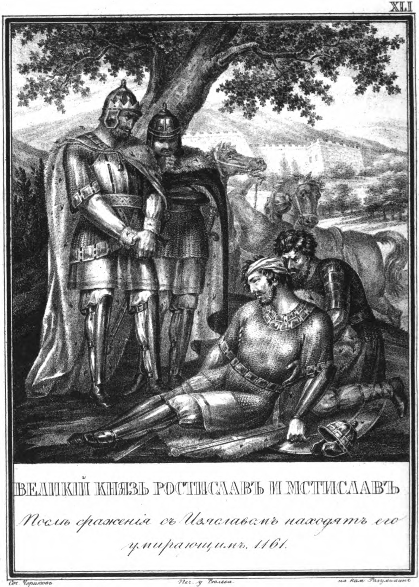 Illustration plate from the book Живописный Карамзин (1836), depicting the history of Russia.